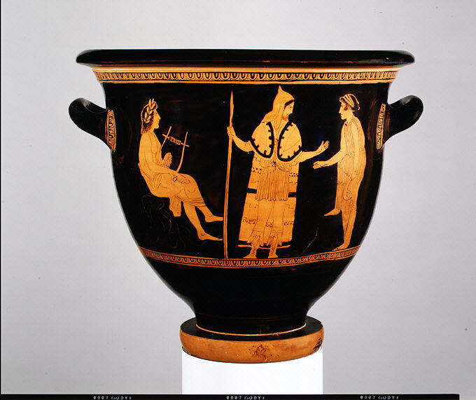 Greek, Attic; Bell-krater; Vases; Obverse, Orpheus among the Thracians; Reverse, libation scene